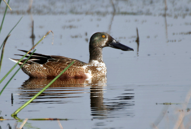 Northern Shoveler (Anas clypeata) near Hodal in Faridabad District of Haryana, India.